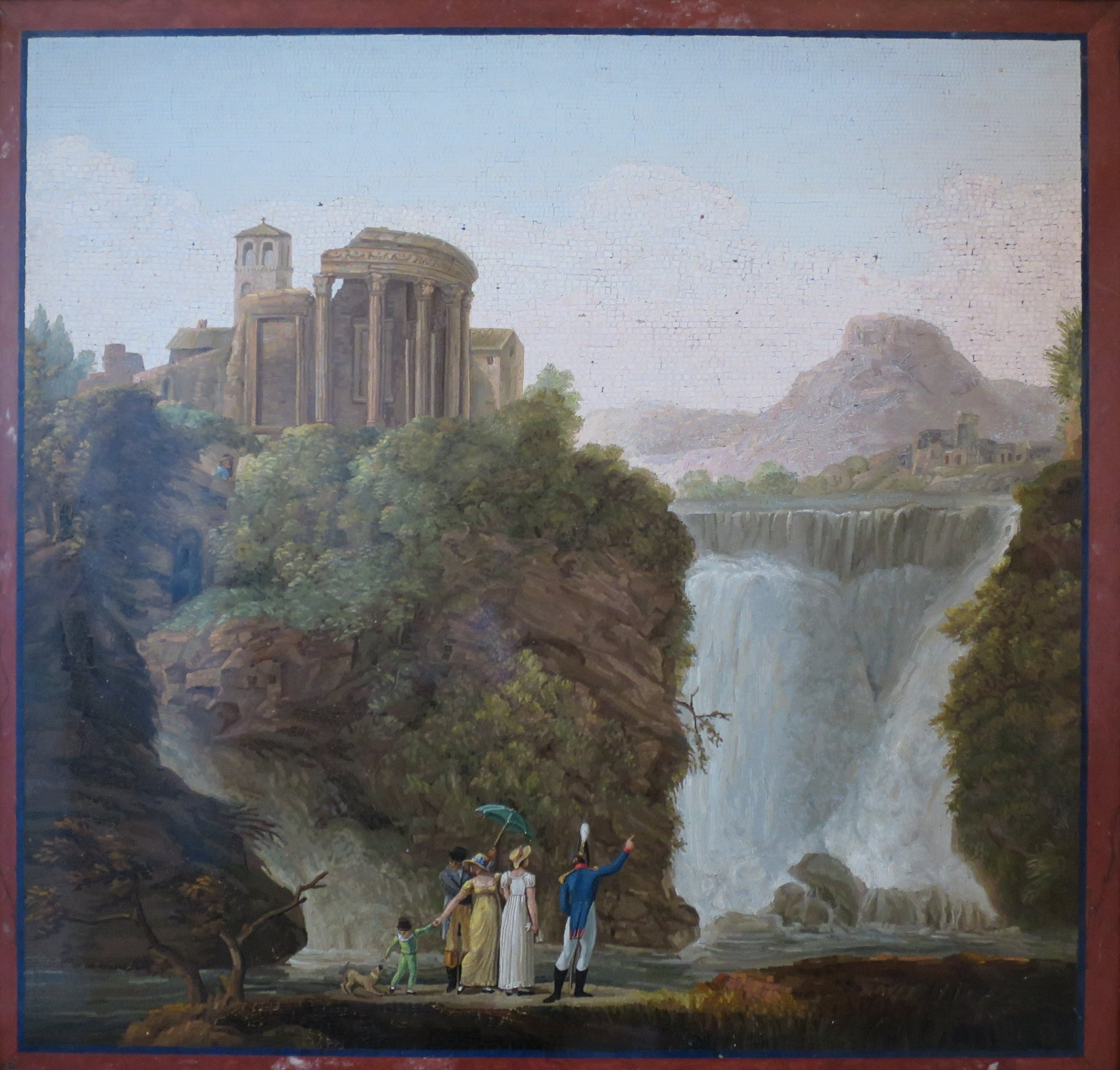 The Temple of Sibyl at Tivoli and a Waterfall, 51.5 x 49.5 cm